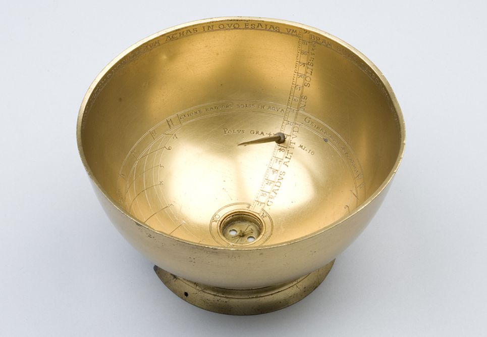 Georg Hartmann, German, 1525-1564, Bowl of Ahaz [Refracting scaphe sundial], Nuremberg, 1548, Brass Collection of Historical Scientific Instruments, Department of the History of Science, Harvard